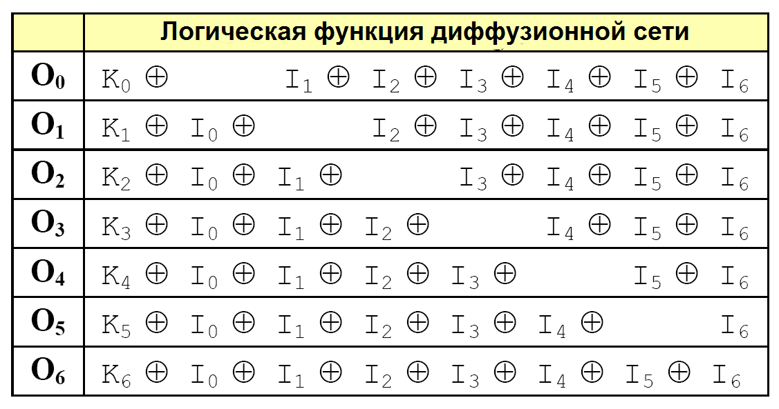 Diffusion_network_logic_function in hdcp cipher